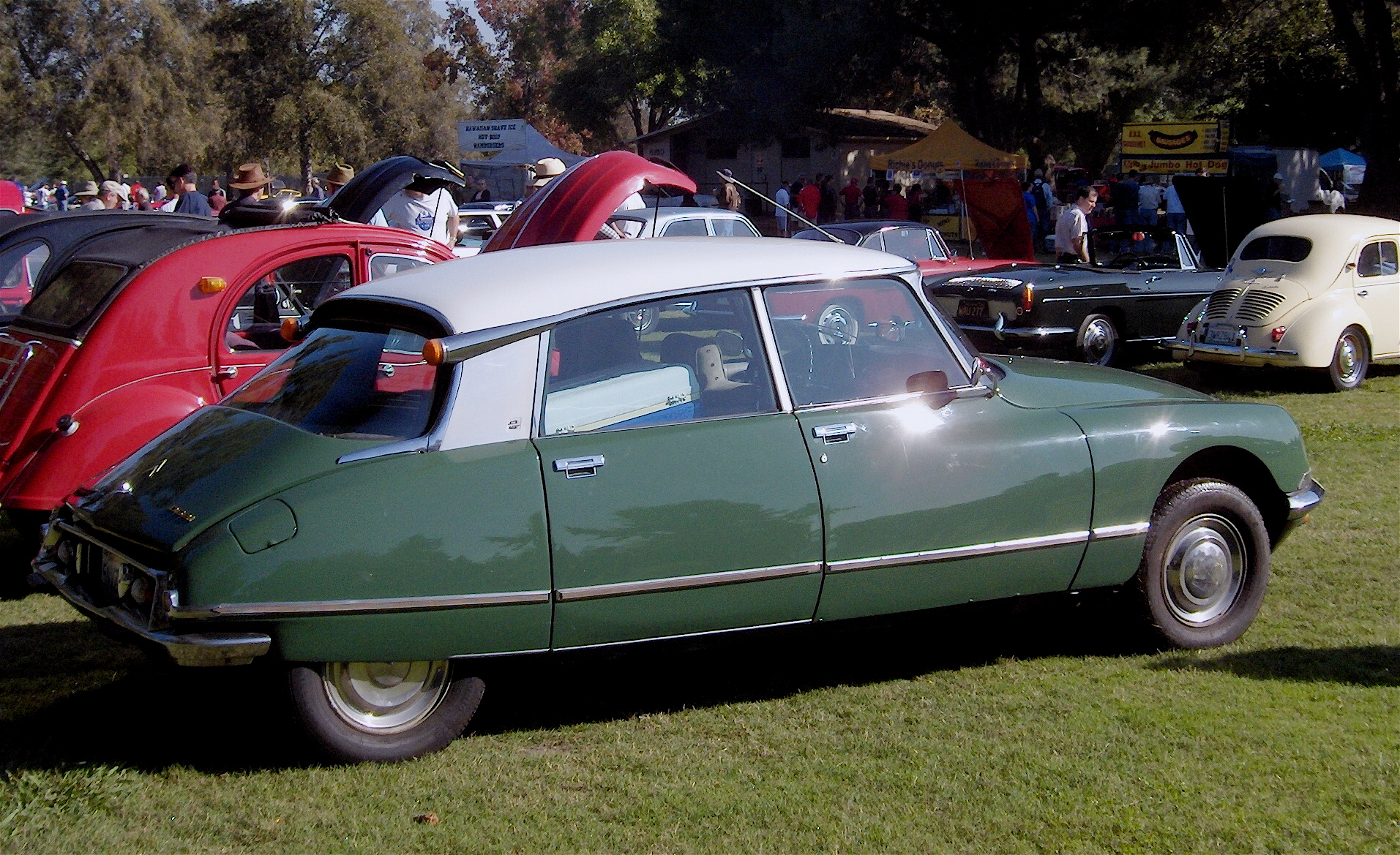 I took this photo in a public location